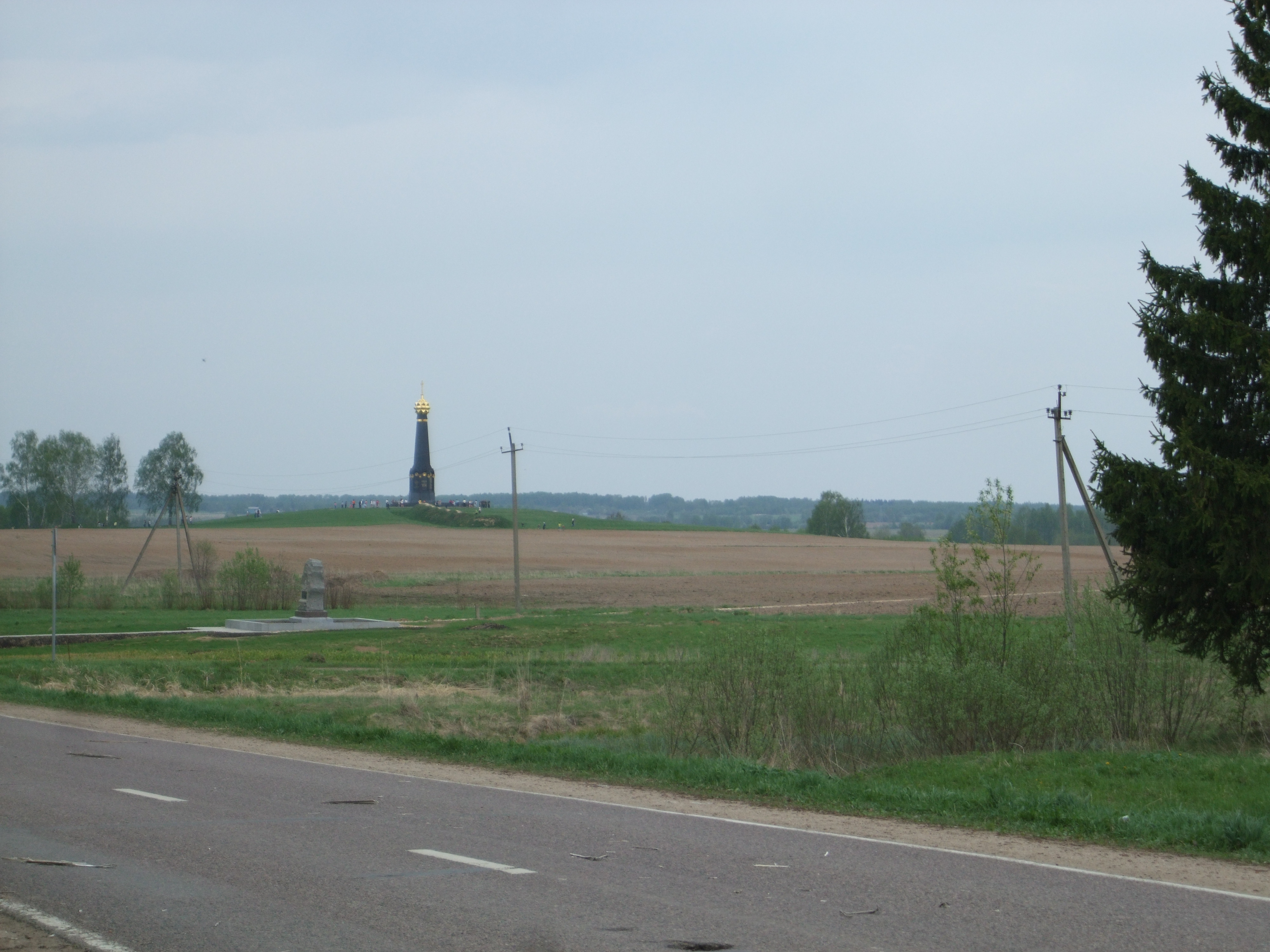 Camps of Borodino, Moscow region